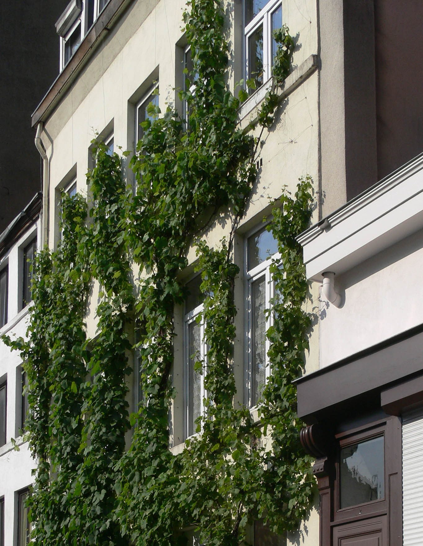 Vine on urban facade, producing Grape directly accessible from the windows. Lille, rue de Gand (northern France)